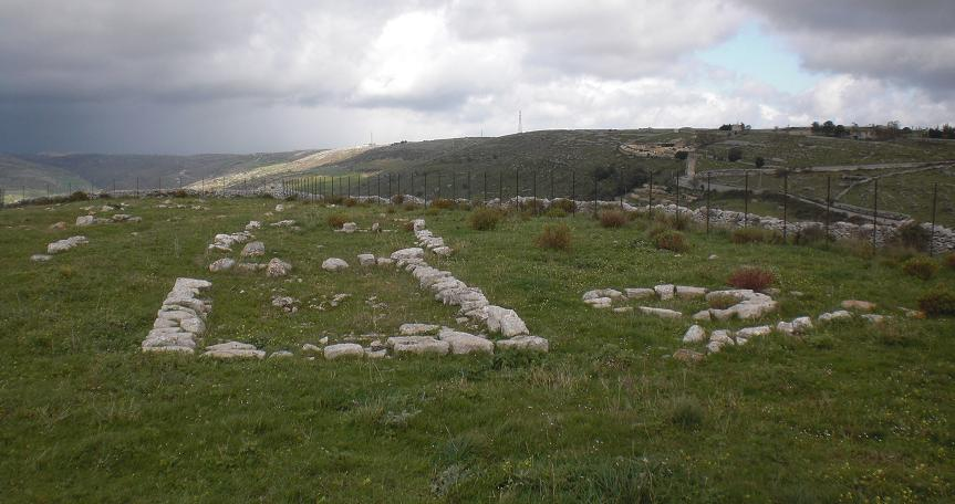 Temple of Castiglione di Ragusa in Sicily.